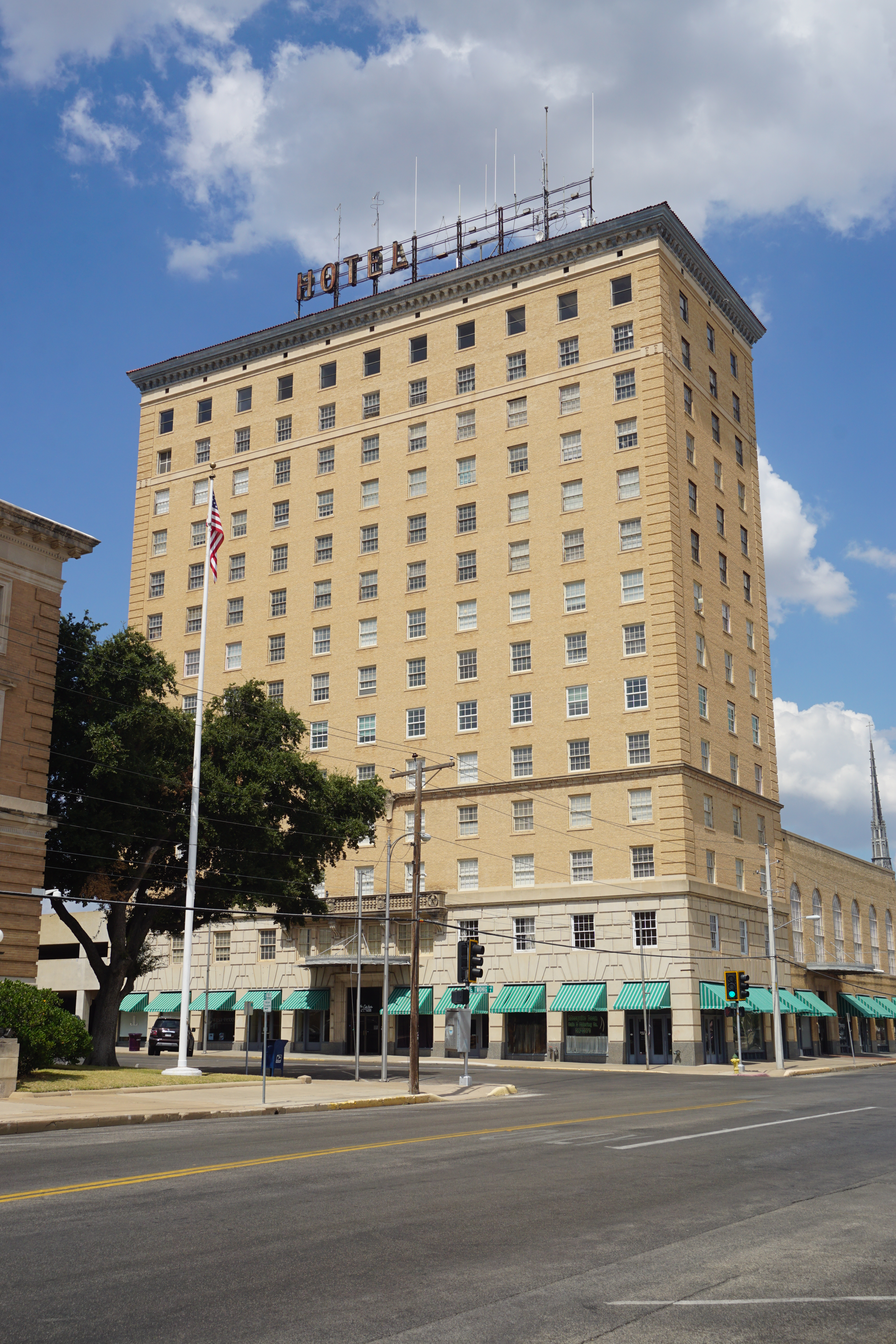 The Hilton Hotel in San Angelo, Texas (United States).